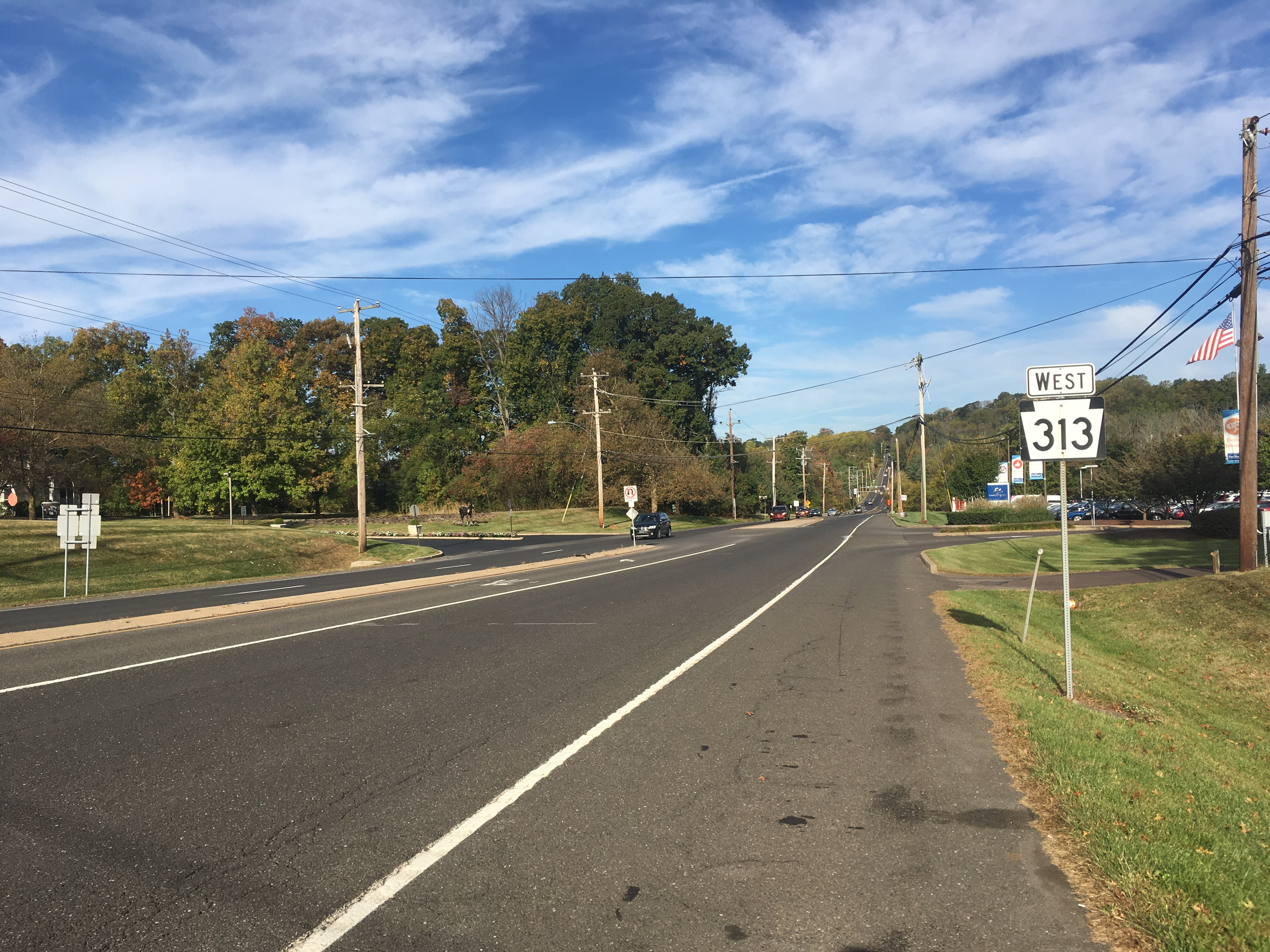 Westbound Pennsylvania Route 313 (Swamp Road) past the interchange with Pennsylvania Route 611 (Doylestown Bypass) near Doylestown, Pennsylvania.